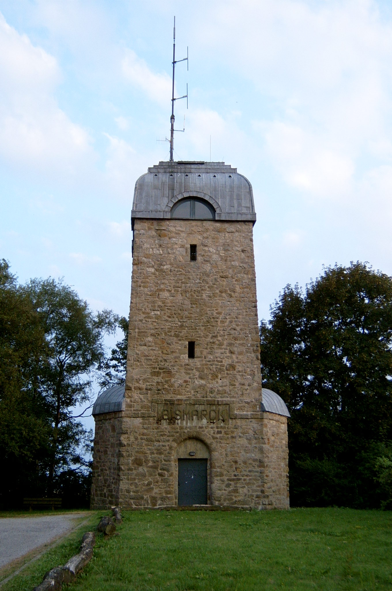 Bismarck tower north of Möhnesee-Delecke, Germany.